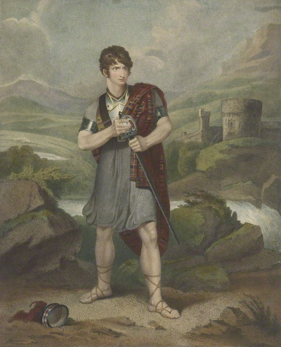 Portrait of Henry Erskine Johnston (1777–1830?), Scottish actor, in the titkle role of Douglas in the play by John Home.